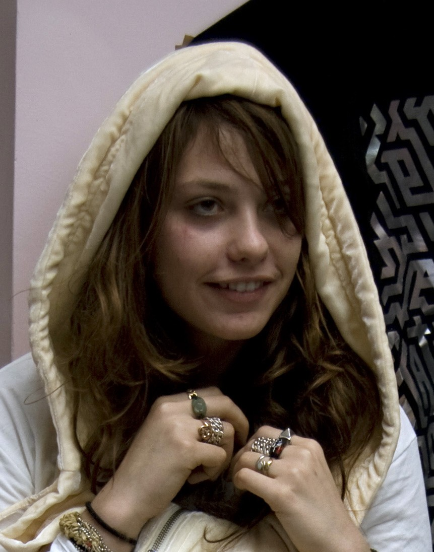 Cory Kennedy, American fashion personality, on march 2008